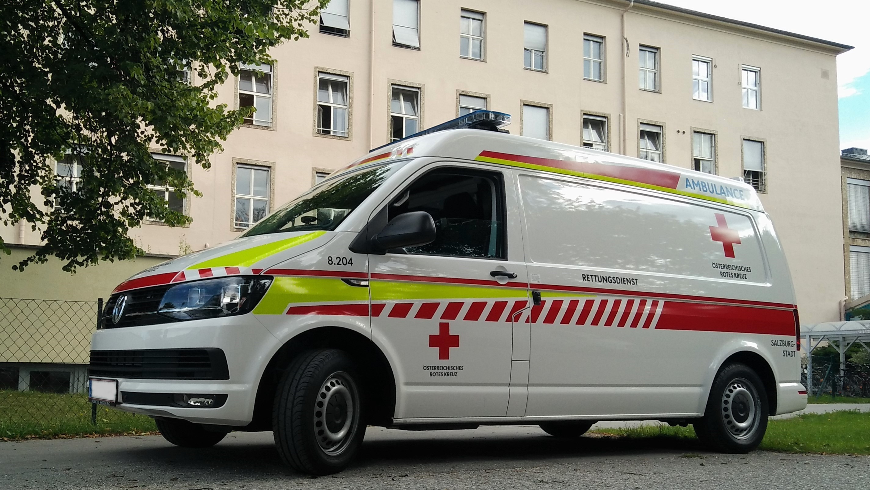 Patient transport ambulance Type A2 of the Austrian Red Cross